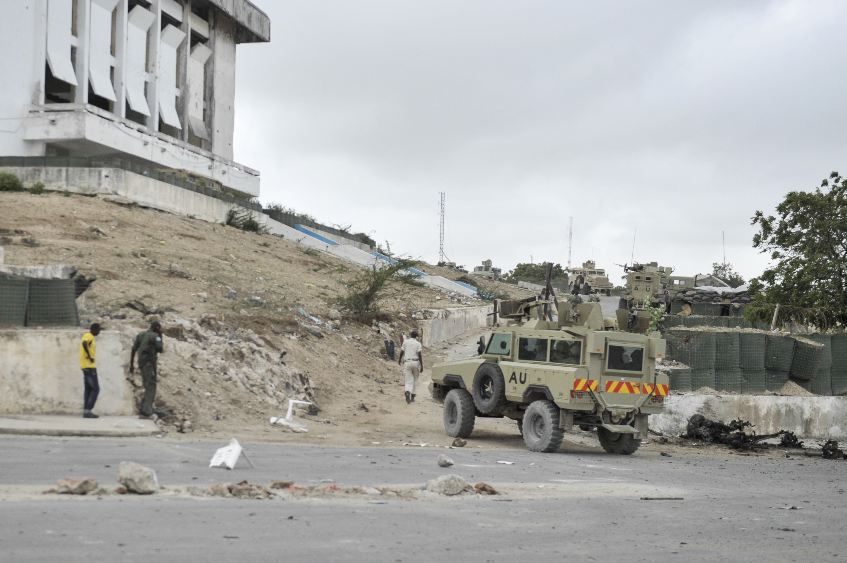 An armoured personel carrier passes the scene where the car bomb exploded that lead to the entry of Alshabaab soldier into the Somalia parliament buildings on 24th May 2014.